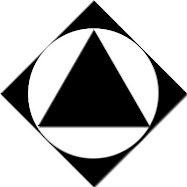 itenas21